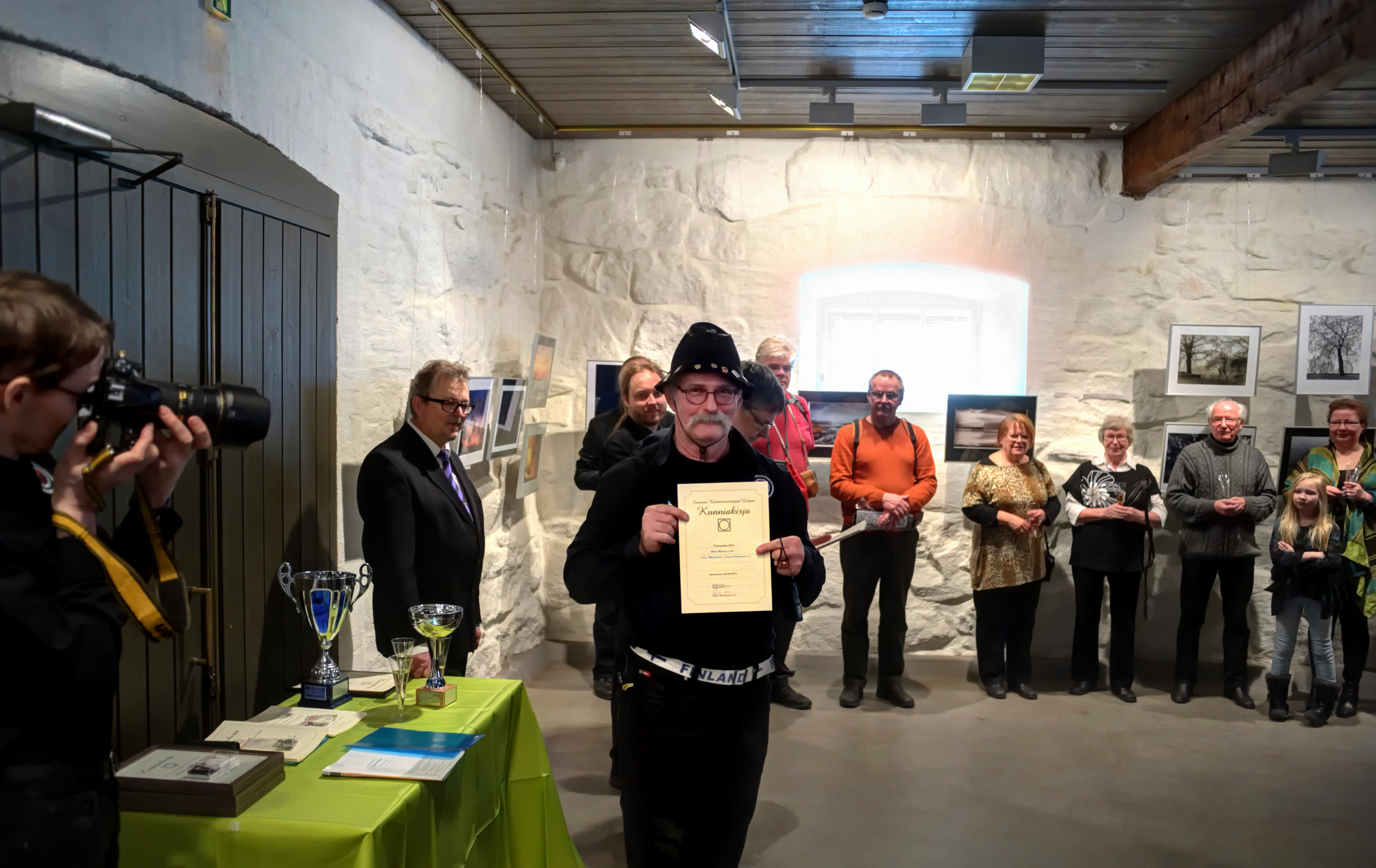 Jarmo Mäntykangas in Galleria Pihatto, Lappeenranta, Finland